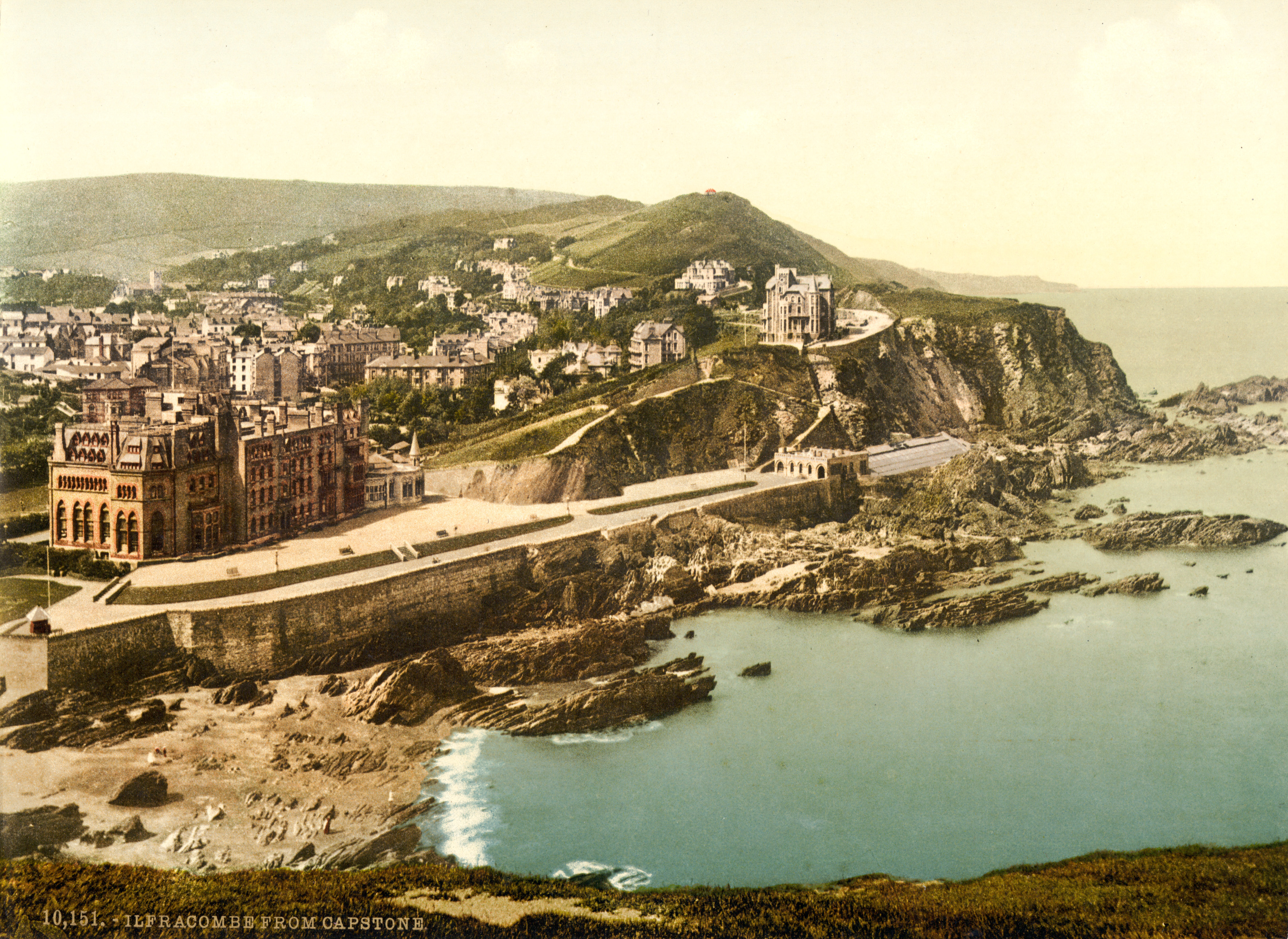 Town and hotels from Capstone, Ilfracombe, England. 1 photomechanical print : photochrom, color.